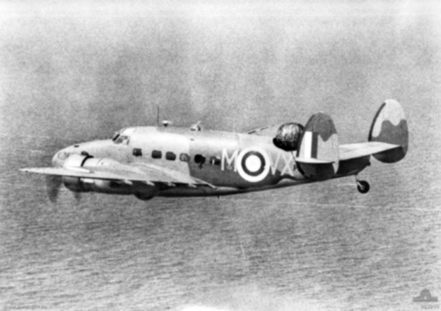 An RAF Lockheed Hudson from No. 206 Squadron (M-VX) flying over the North Sea near Helgoland in 1940.